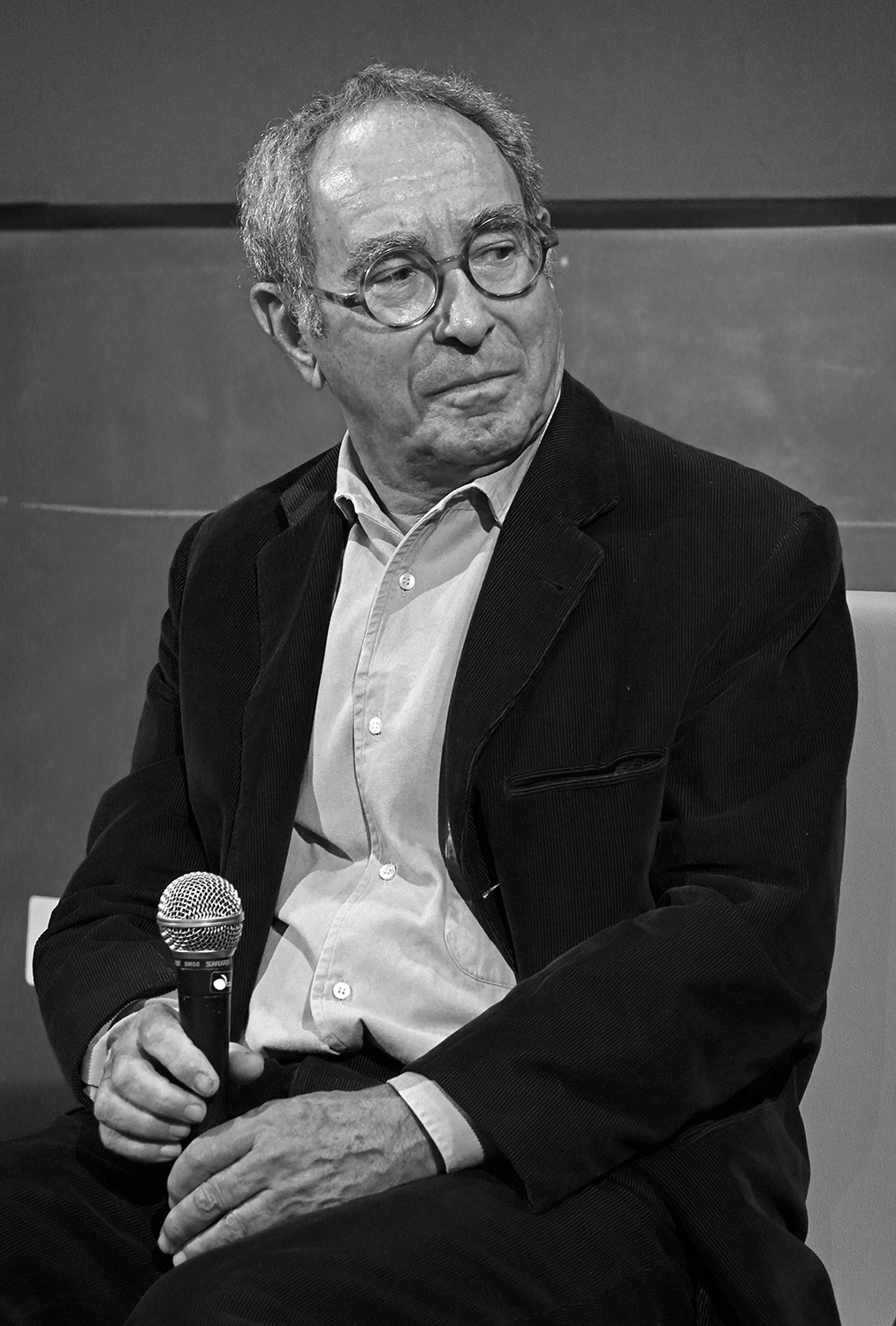 Tullio Pericoli